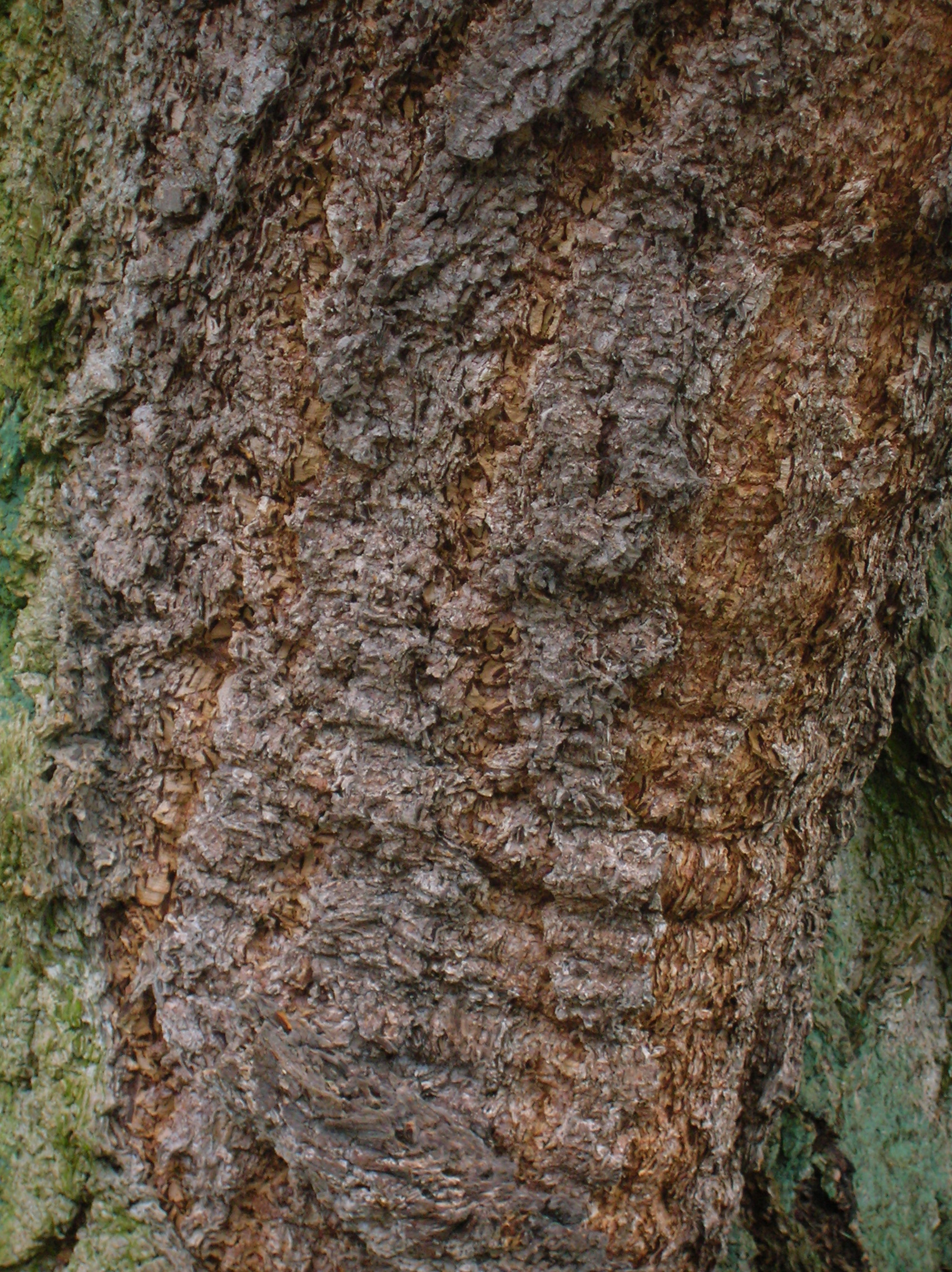 Bark of Douglas Fir at Dawyck Botanic Gardens, Borders, Scotland.